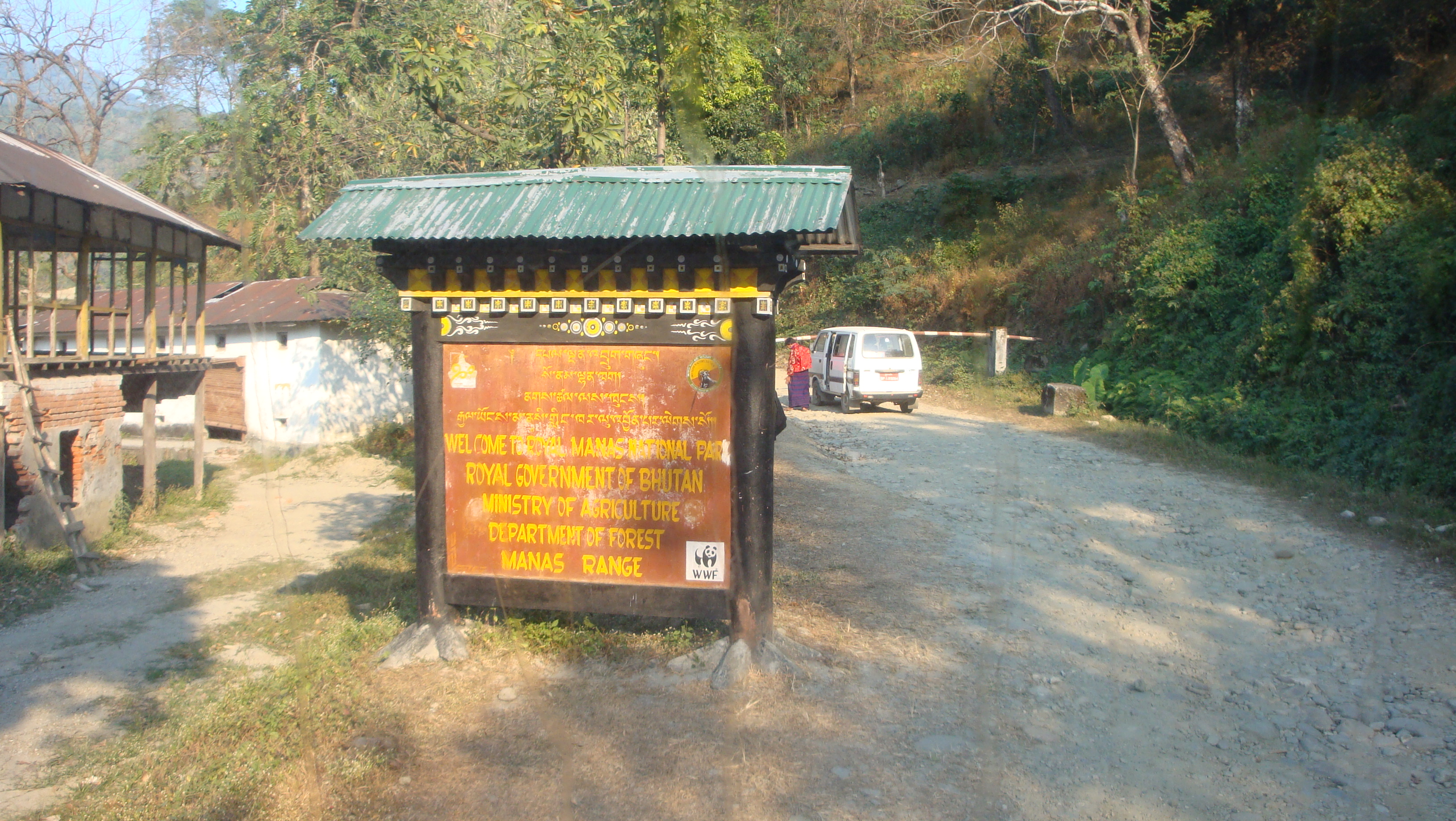 Entrance sign for Royal Manas National Park in Bhutan.